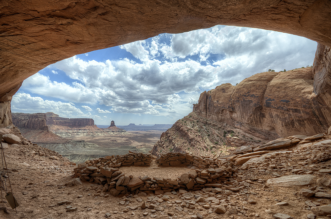 This little cave, located in the Island in the Sky district of Canyonlands, is becoming a required stop on the pilgrimage of every landscape photographer. Not quite Mesa Arch yet, either in popularity or in beauty -- or in ease of access. I took a 360 interactive panorama from the middle of the "kiva" area, which you can see by going to my Web site and clicking on "Virtual Reality" in the header, and then clicking on "False Kiva".